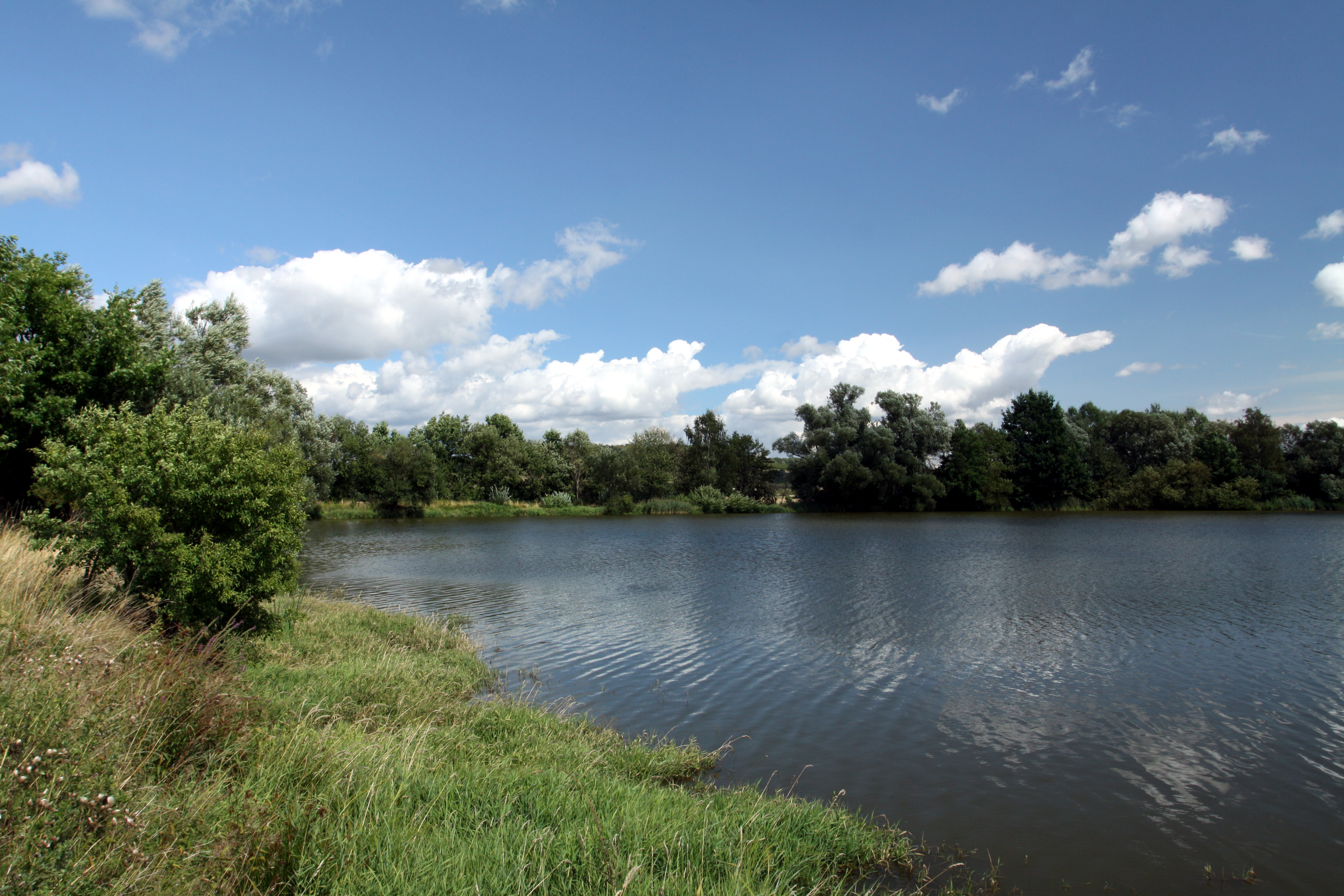 Nature reserve Postřekovské rybníky near Postřekov village in Domažlice District, Czech Republic